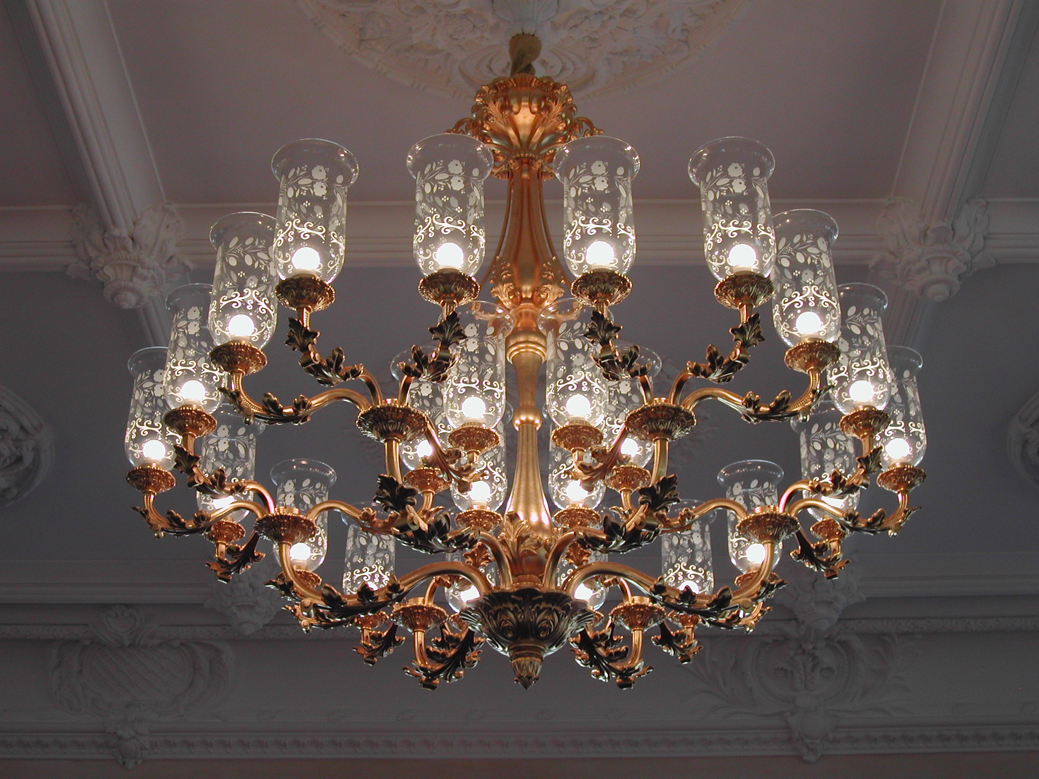 Centre light in the old town hall, Saint-Denis, Réunion